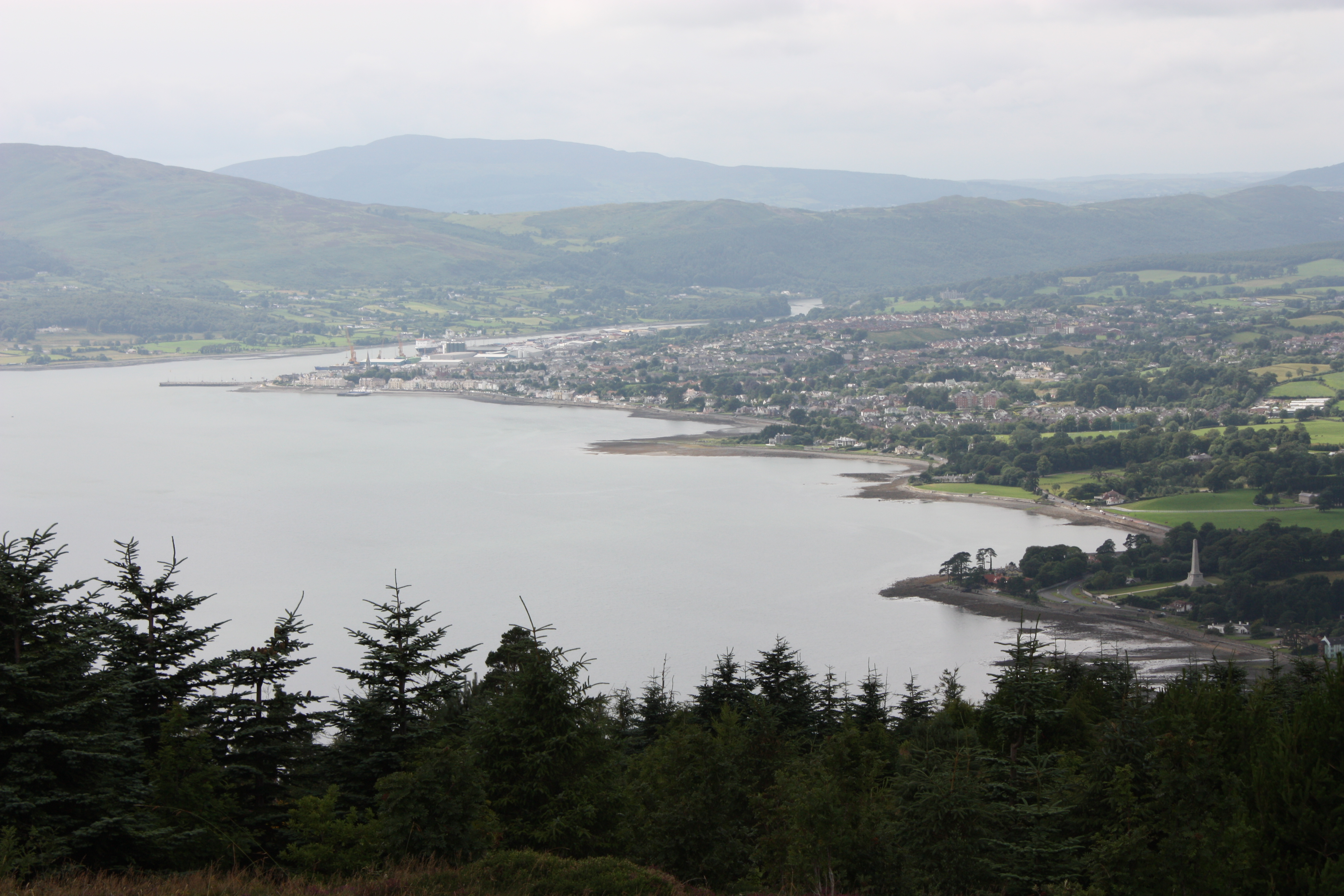 Warrenpoint, County Down, Northern Ireland, July 2010 (viewed from near Cloughmore Stone, Rostrevor)